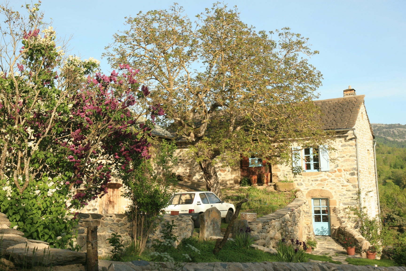 Birthplace of Jules Romains (a french poet and writer, member of the french Academy) in Saint-Julien Chapteuil (Haute-Loire, France)